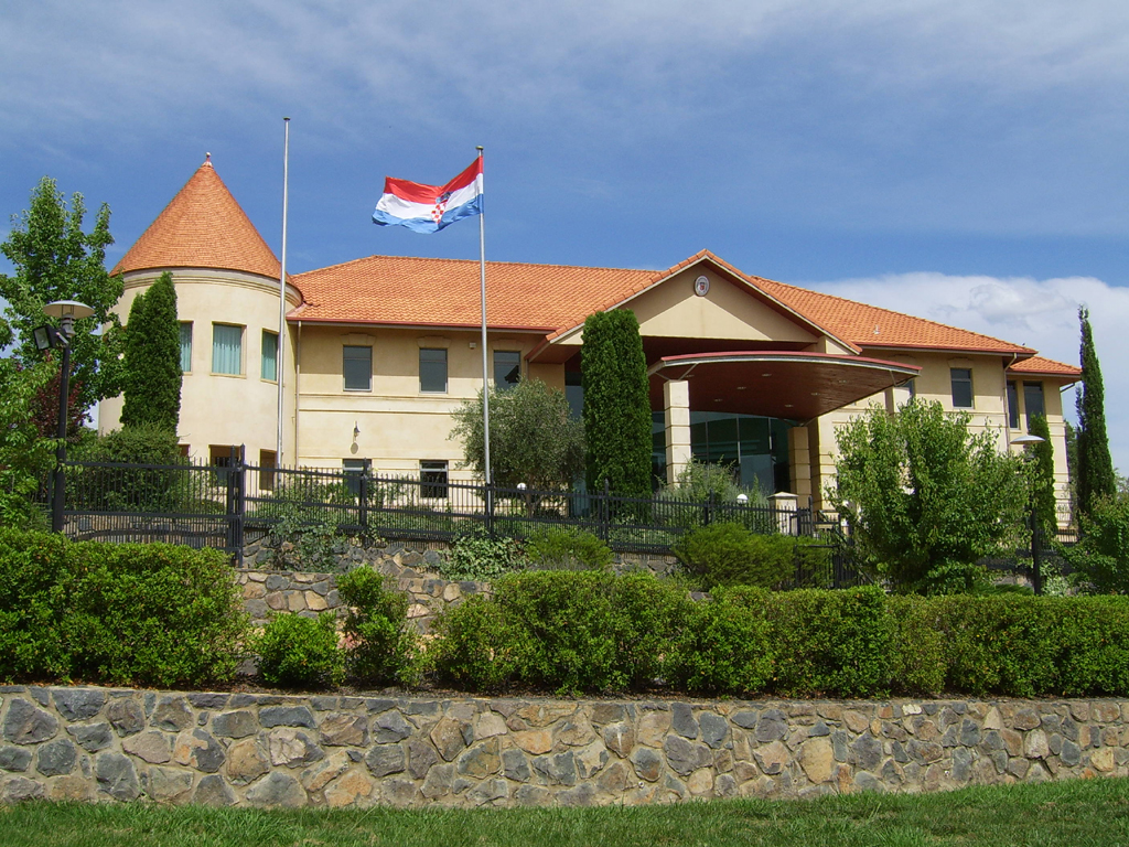 The Embassy of the Republic of Croatia in the suburb of O'Malley, Canberra, Australia. Photo taken by M. Zanetic-Zalante on 9/12/2007. Category:Images of Canberra